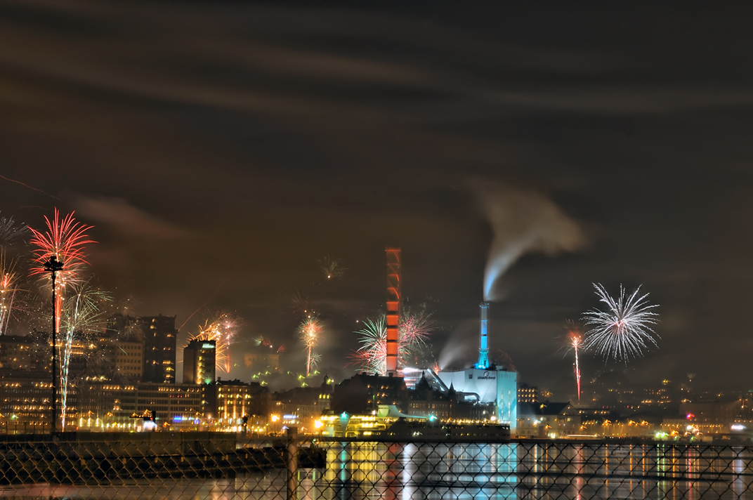 View On Black View of Gothenburg from the docks at New Years Eve 2008. HDR, Orton and adjusted curves in photoshop.